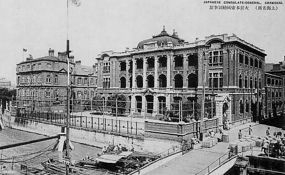 Consulate-General of Japanese Empire in Shanghai